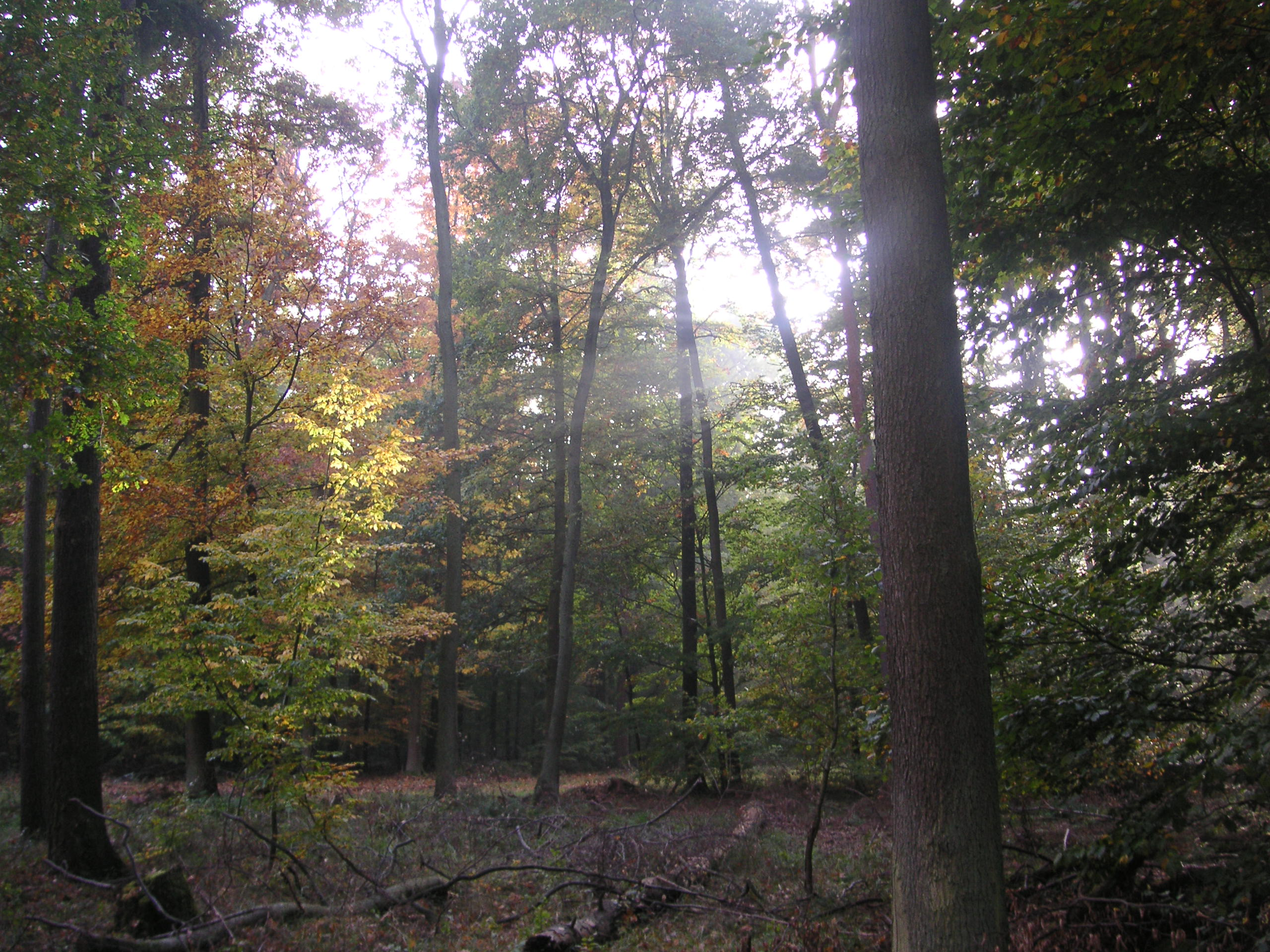 The Koberstast , a forestregion near Langen and Egelsbach.